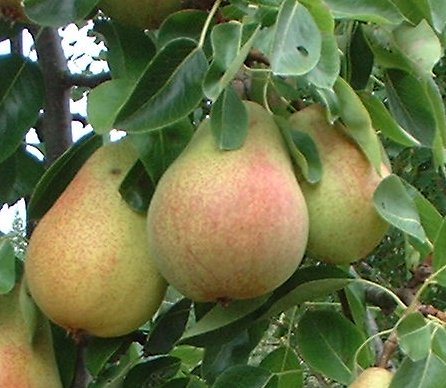 Clapps Favorite pear, British Colombia, Canada